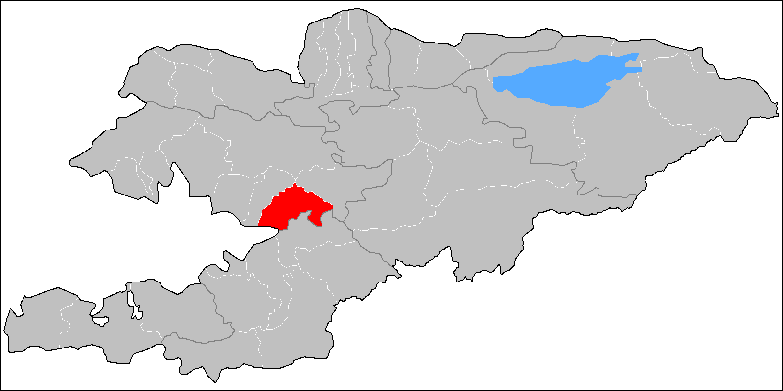 The location of the raion (district) of Suzak in Kyrgyzstan. Based on Image:Kyrgyzstan raions.png